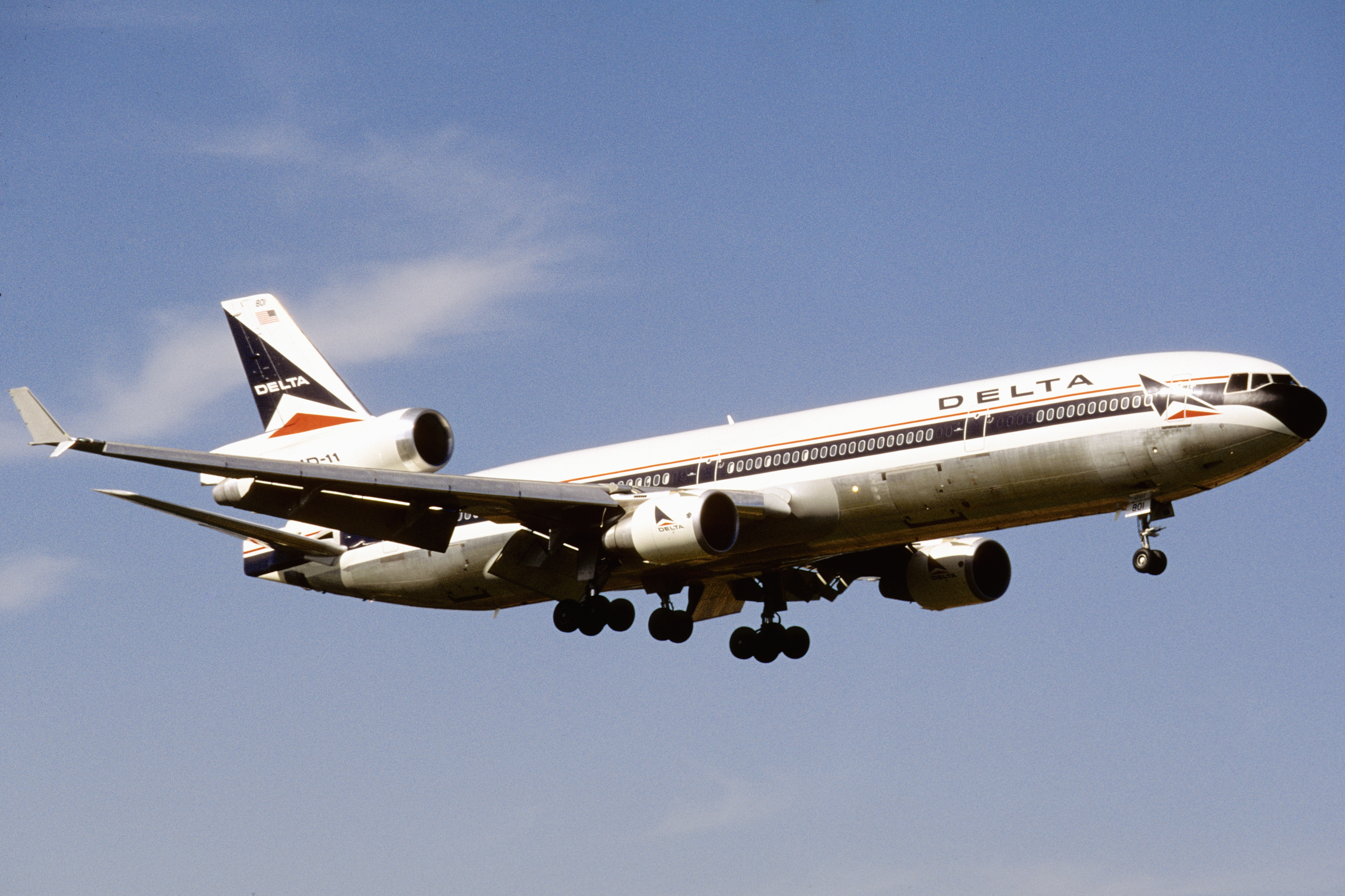 Old Pictures.